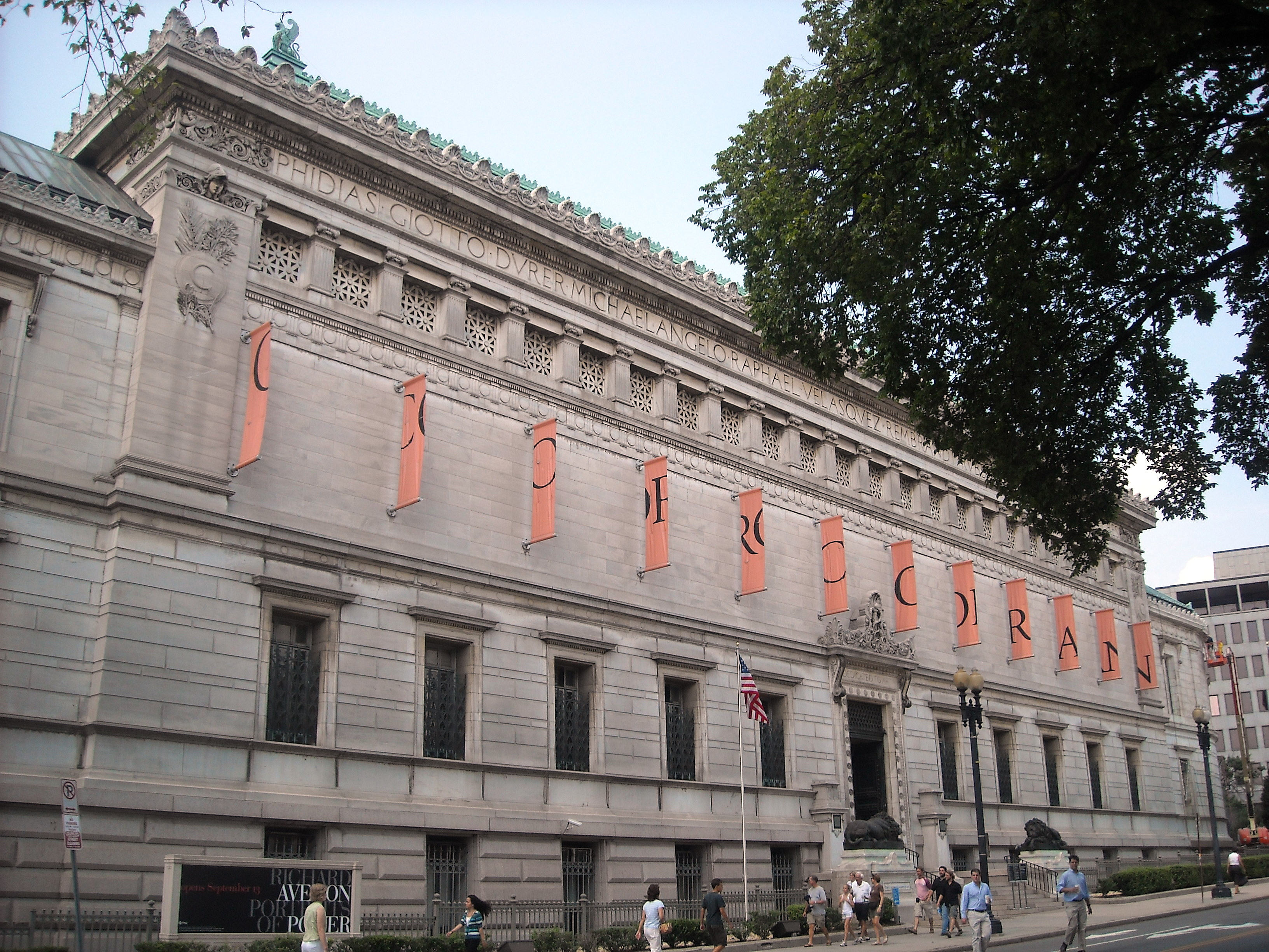 The Corcoran Gallery and School of Art at 17th and New York Avenue, NW in Washington, D.C. The building is a National Historic Landmark.